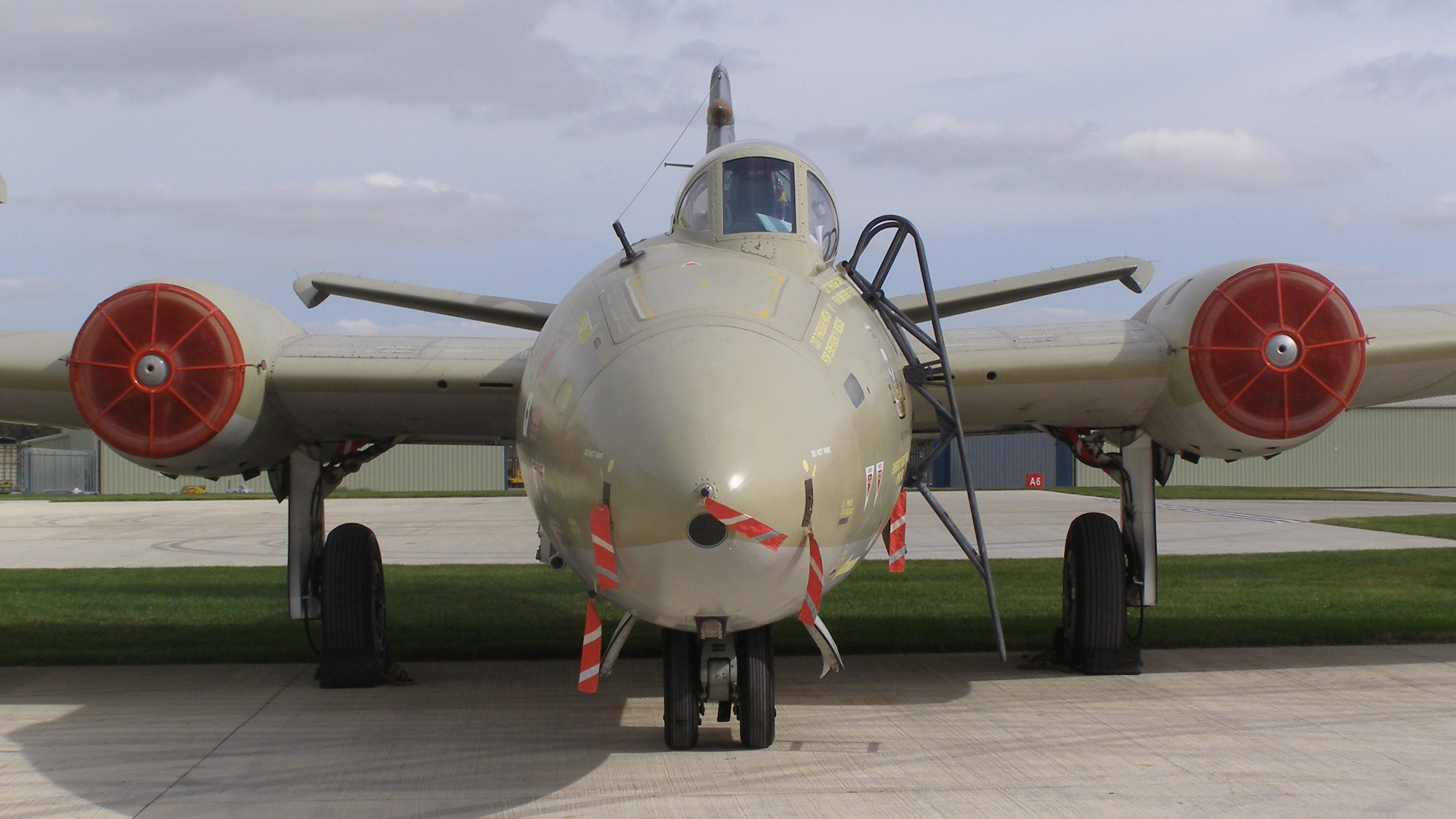 A 1959-built English Electric Canberra PR9 twin-engined reconnaissance jet registered G-OMHD but painted as XH134 in the markings of the Royal Air Force. At Kemble Aerodrome, England